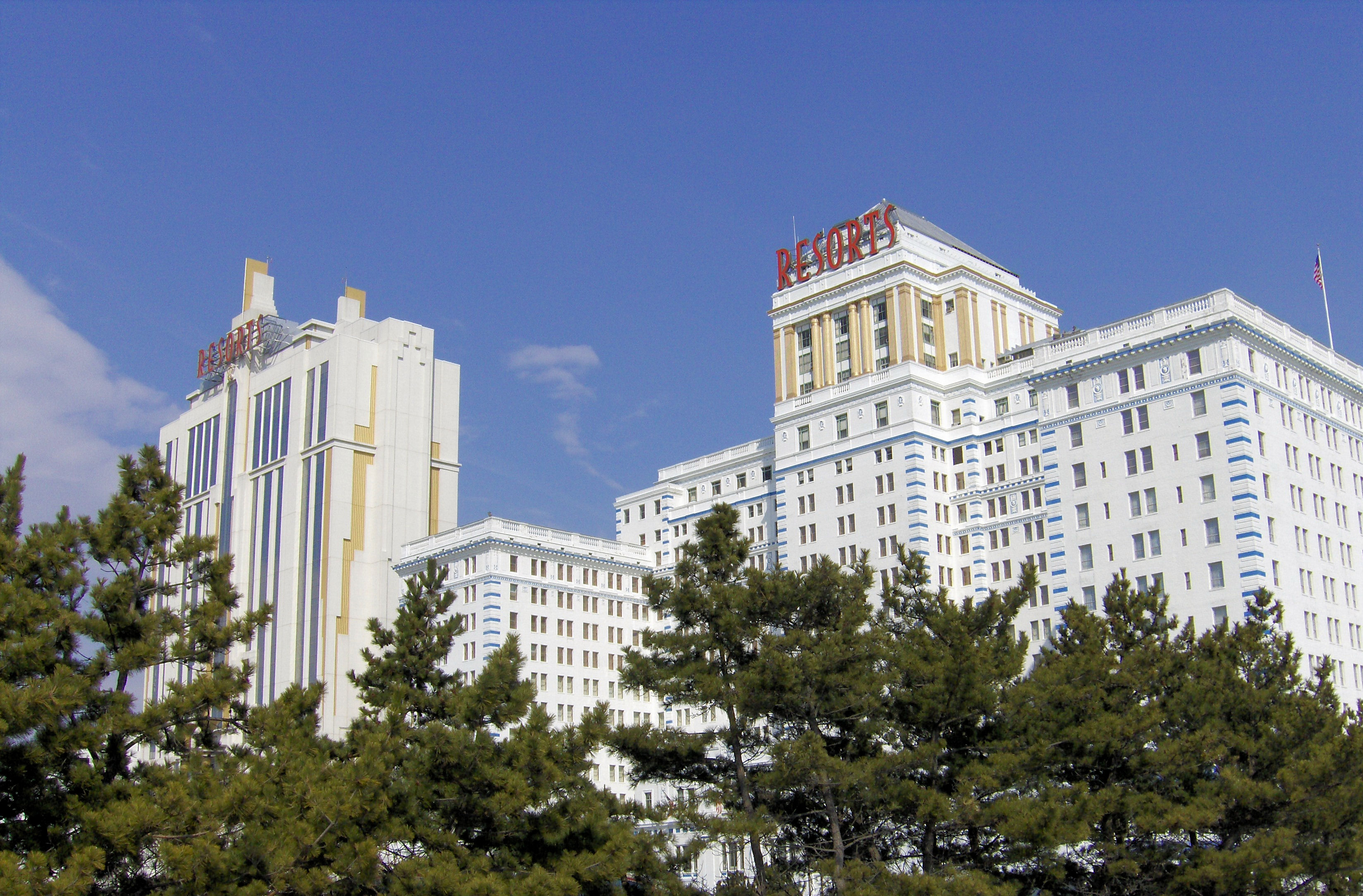 Resorts Atlantic City hotel towers from the boardwalk.